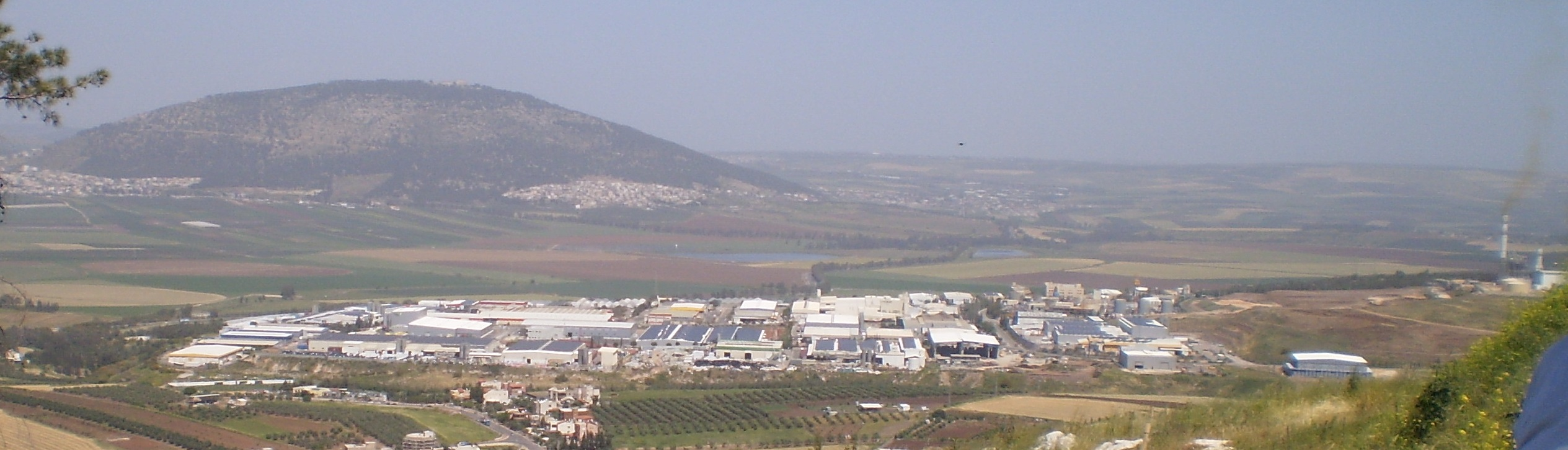 Alon Tavor Industrial Park, viewed from Dahi